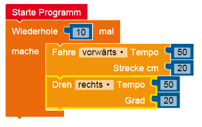 Open Roberta - Programming Blocks. The programming language is called NEPO